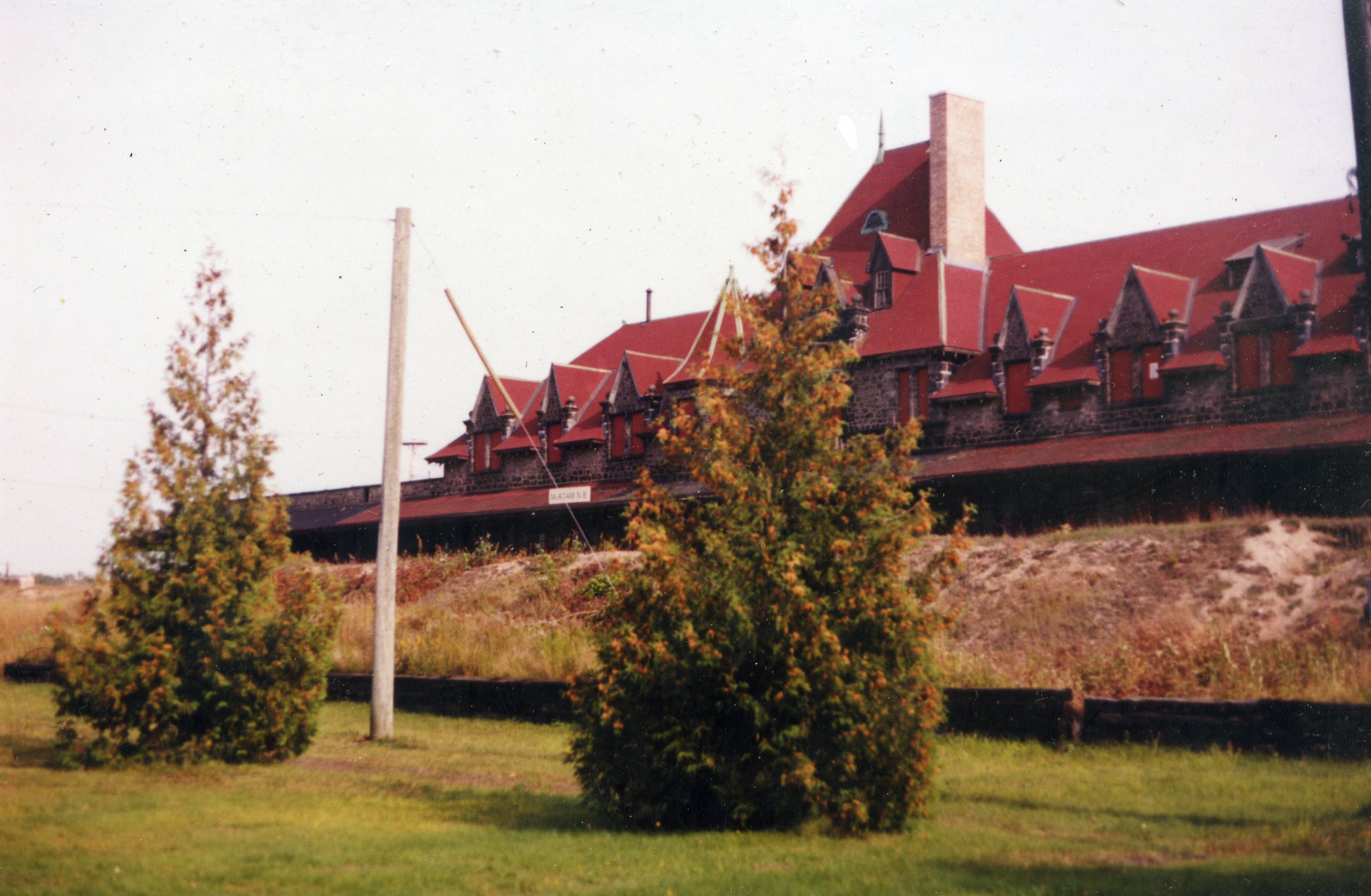 Historical buildings in New Brunswick Canada